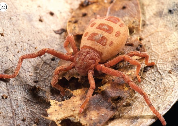 a — nymph of Ricinoides atewa from Asiakwa, Ghana (specimen courtesy of P. Naskrecki) (MCZ IZ-130074) b — male Ricinoides karschii from Campo Reserve, Cameroon, 18.vi.2009 (MCZ IZ-130083) c — male Pseudocellus pearsei from Grutas Tzabnah, Yucatán, Mexico, 23.ix.2011 (MCZ IZ-16426) d — Cryptocellus becki, female and two nymphs, from Reserva Ducke, Amazonia, Brazil, 18.v.2012 (MCZ IZ-130034) e — female of an undescribed Cryptocellus sp. from Isla Colón, Bocas del Toro, Panama, 18.iii.2014 (MCZ IZ-30914).